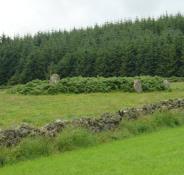 Stone Circle Near West Mulloch Farm, Near Banchory. A small circle in a field about 150m from the farm. At this time of year mainly distinguishable by the untouched high bracken that it contains! View taken from the public road to the SW, looking NE.